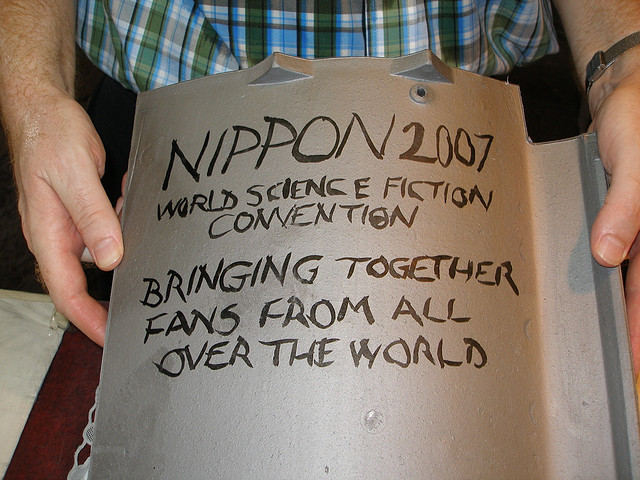 New roof tile for Todaiji Temple in Nara. It says "Nippon 2007, World Science Fiction Convention, bringing together fans from all over the world."